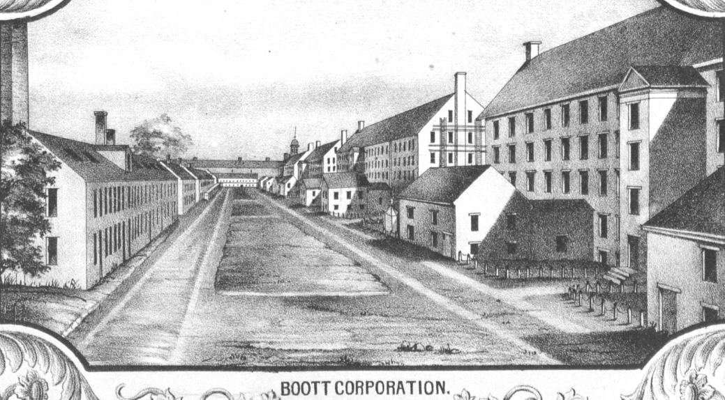 Detail from: Plan of the city of Lowell, Massachusetts Author: Sidney & Neff Publisher: Moody, S. Date: 1850 Location: Lowell (Mass.)